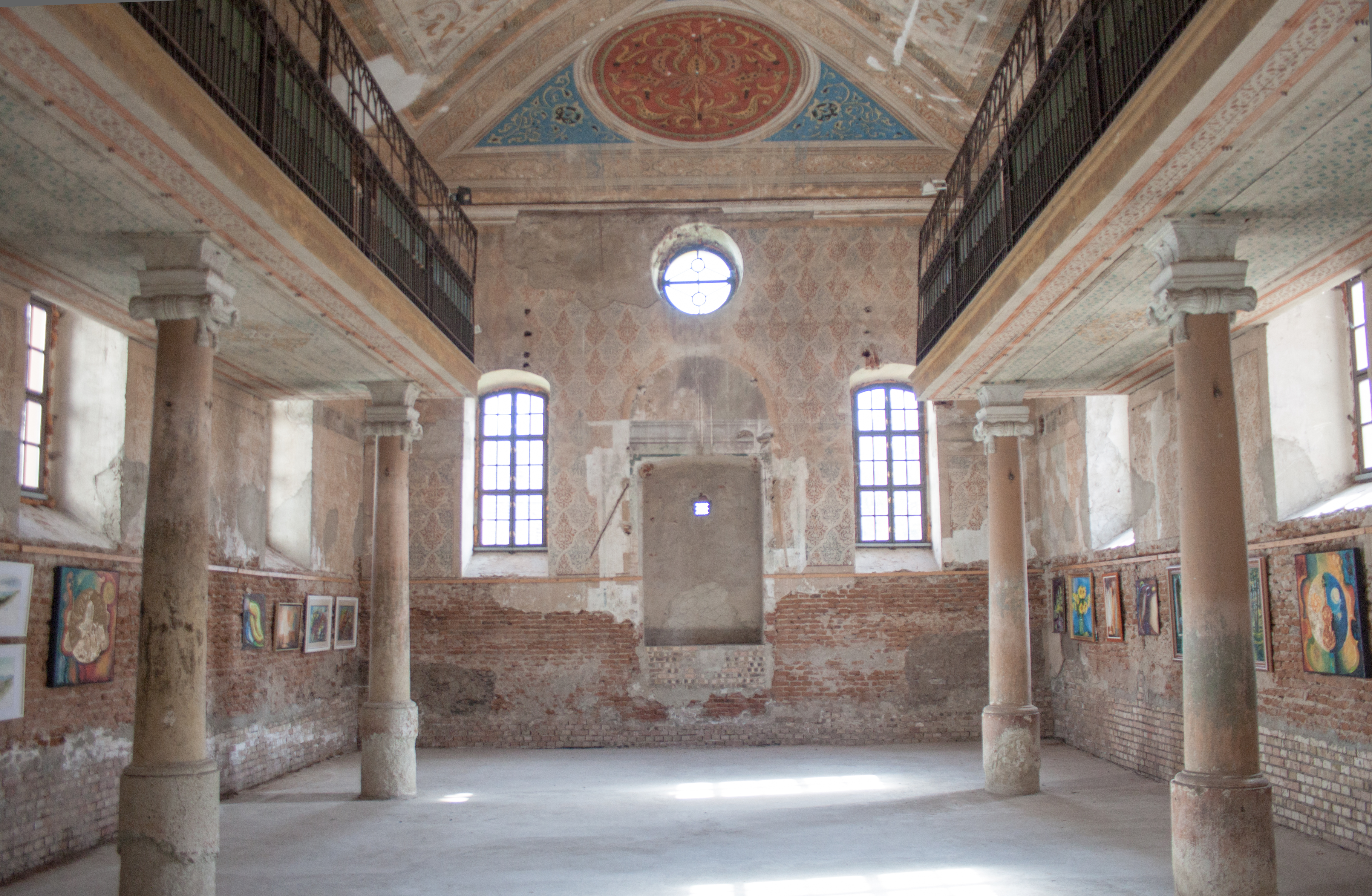 Interior of the Synagogue in Mátészalka